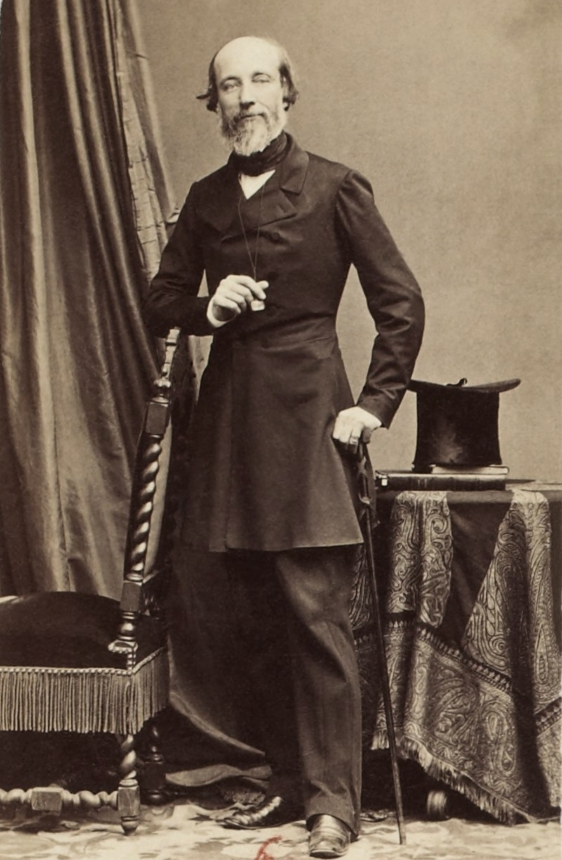 Alfred de Falloux (1811-1886), french politician, minister of the Second Republic. Author of the Falloux laws about education in France, favoring private catholic teaching.